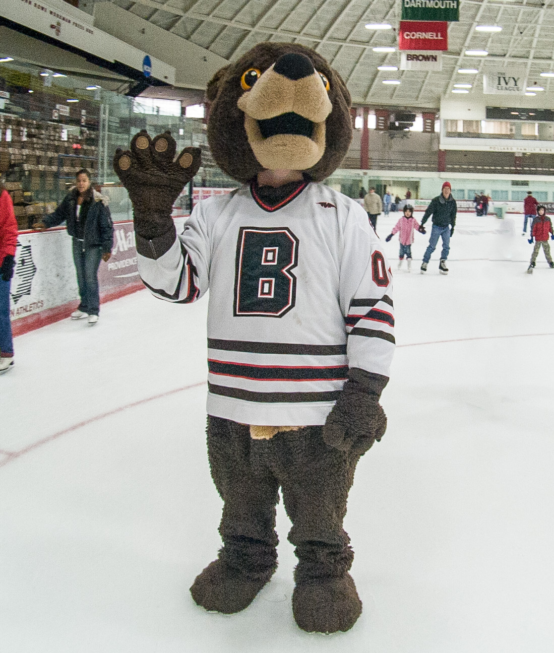 Brown University mascot Bruno skates in Meehan Auditorium